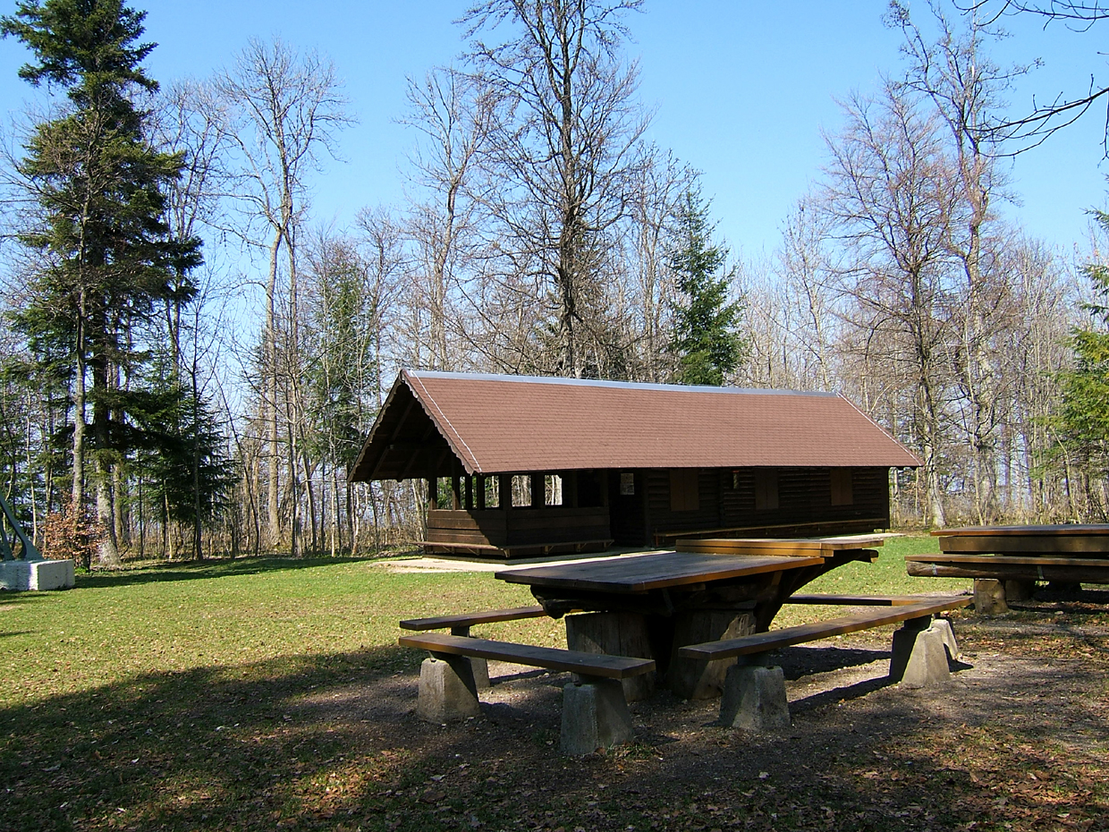 Lembergturm, a 33-m-high view tower on top of Lemberg (Swabian Alb), Germany; Shelter by the tower